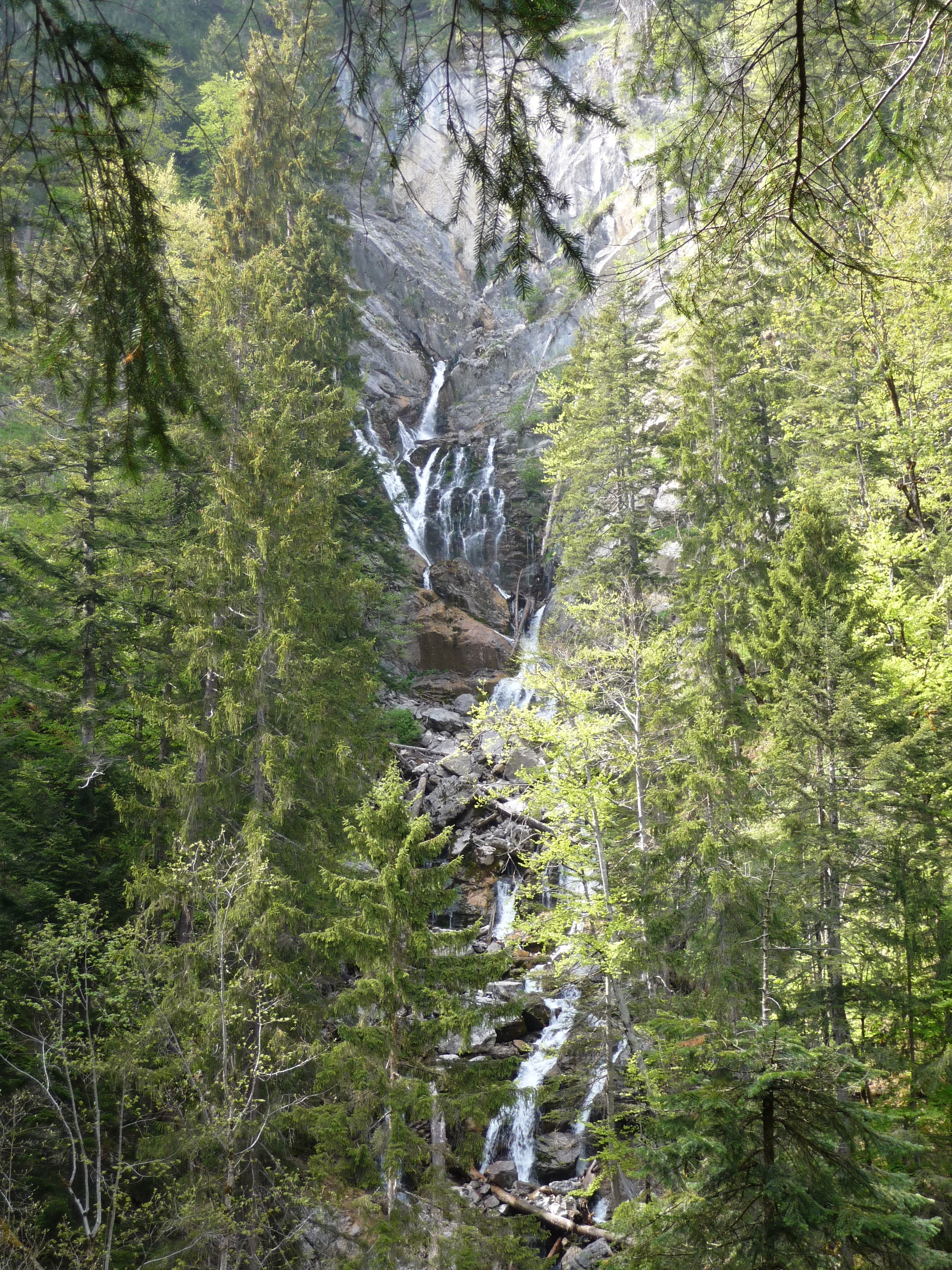 "Großer Wasserfall", Wallgau, Germany